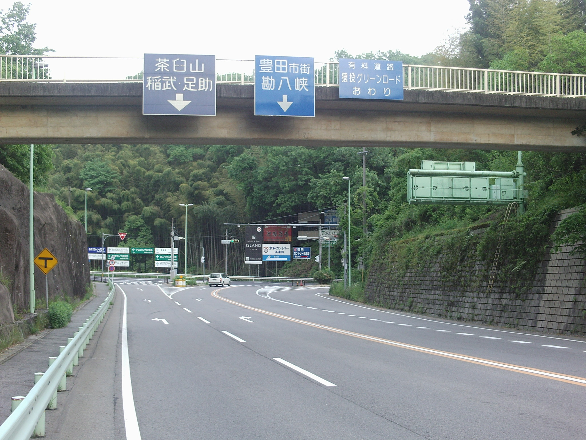 Aichi prefectural road No.6 in Chikaraishicho, Toyota, Aichi.